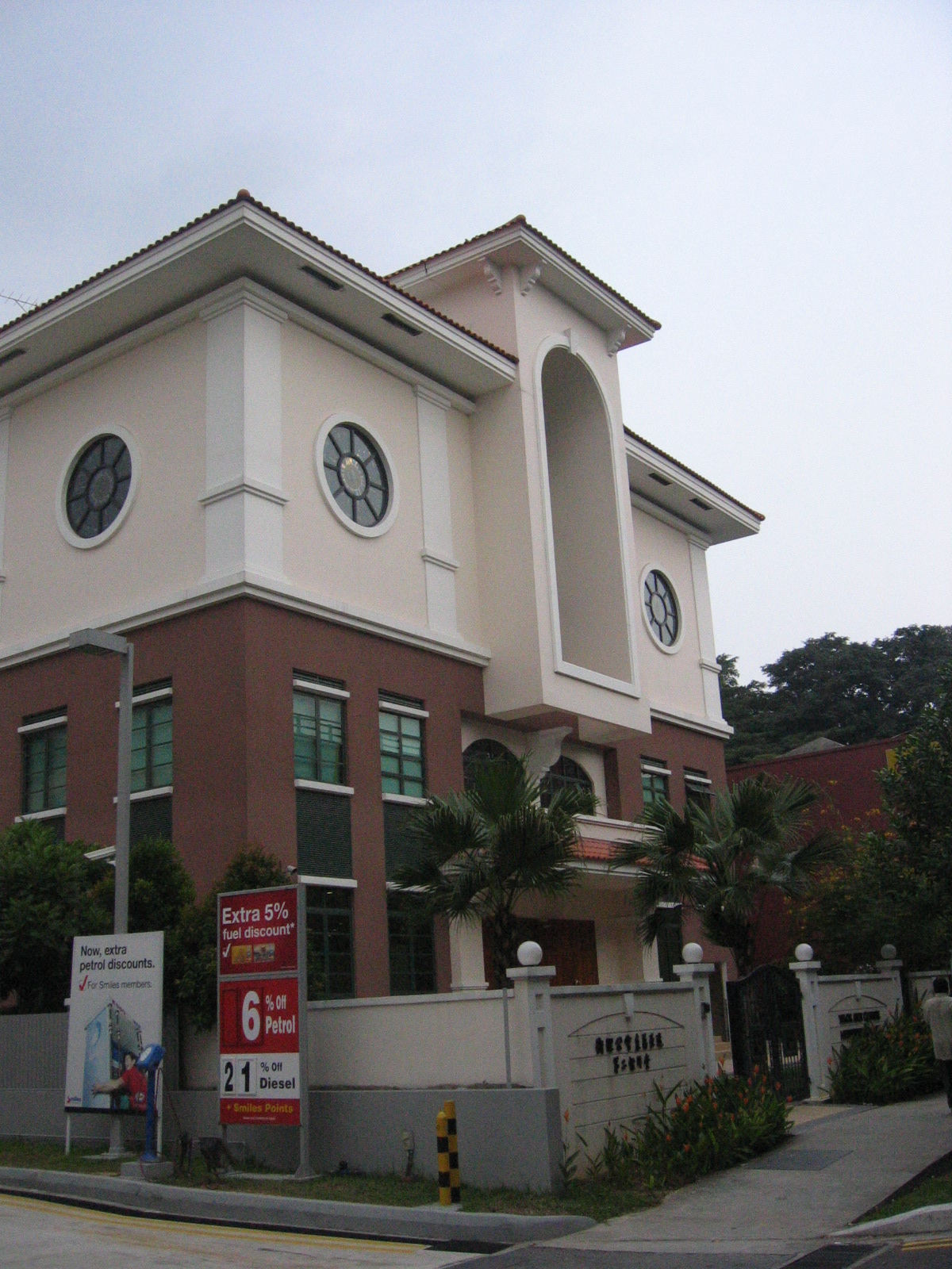 Telok Ayer Chinese Methodist Church (TA2 at Telok Blangah Road), Singapore. Taken by Terence Ong in November 2006.